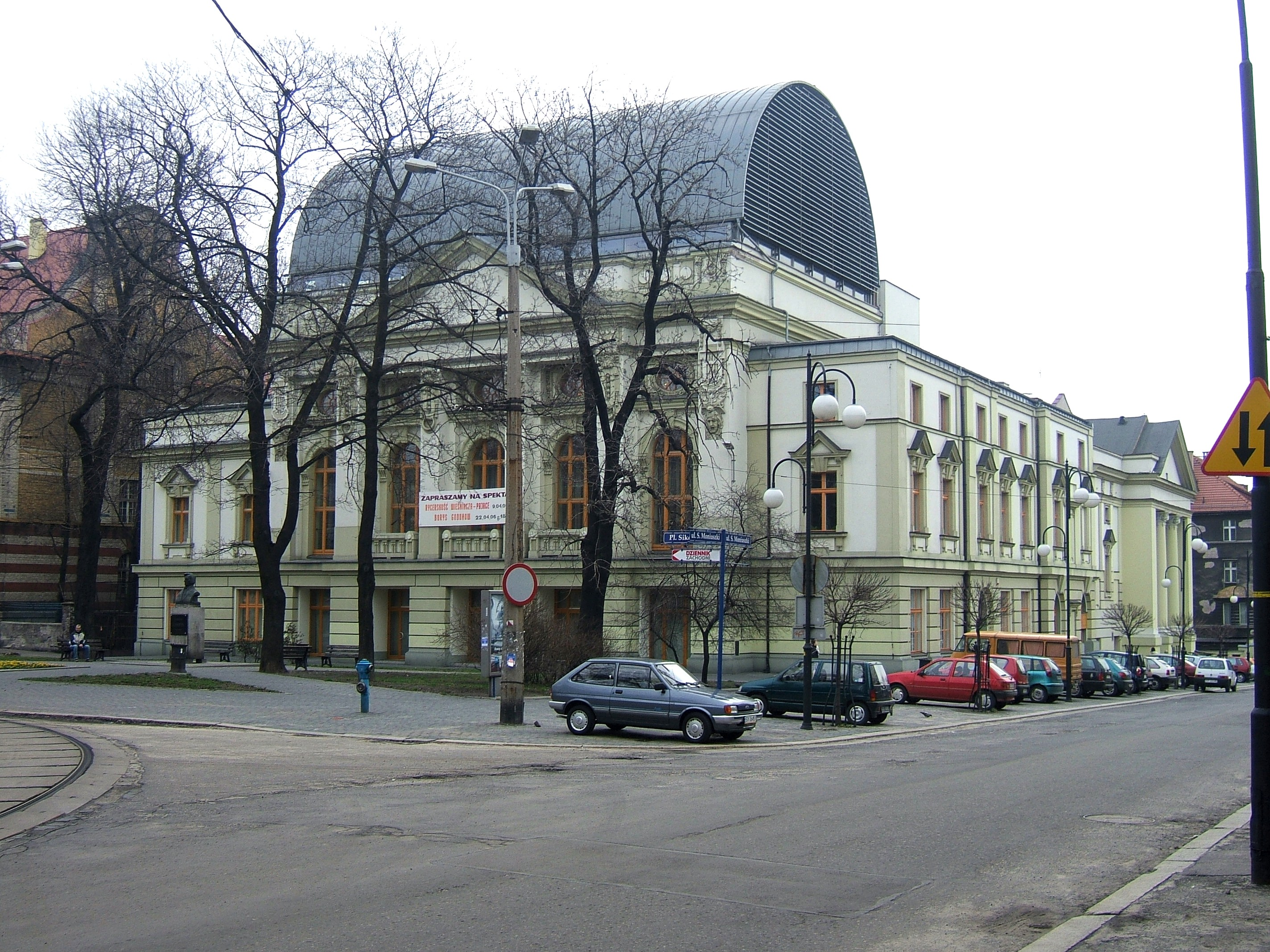 "Opera Śląska" in Bytom (1898-1901).